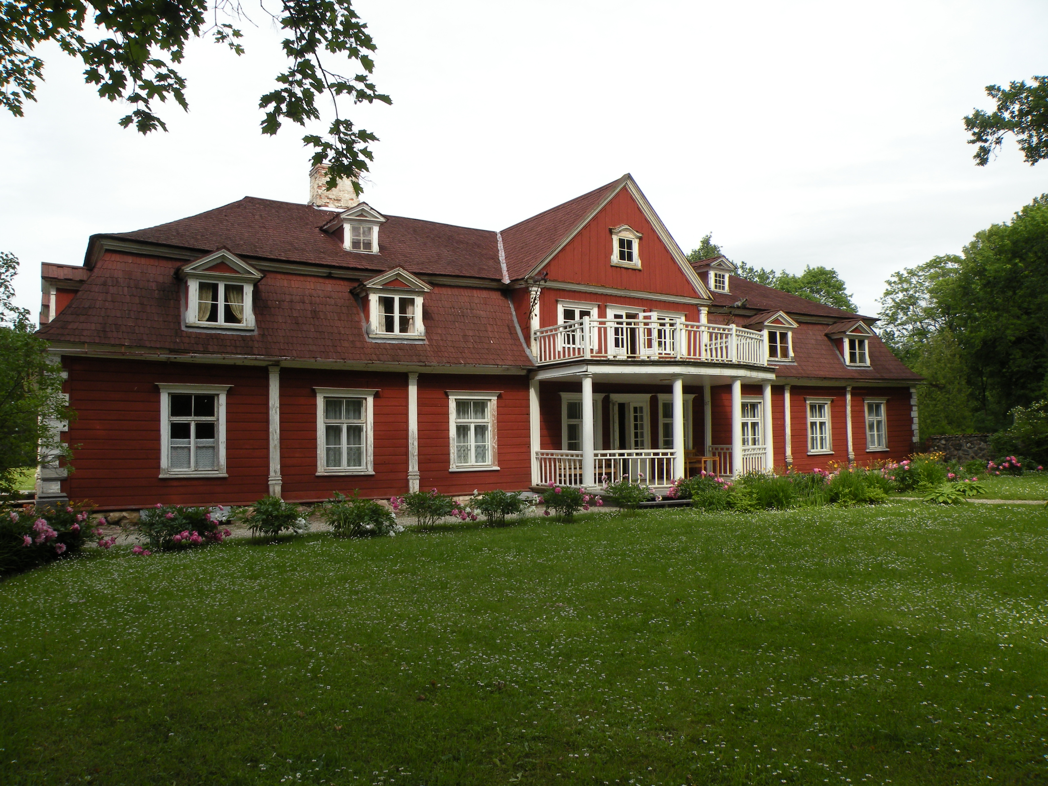 Ungurmuiža (Latvia) is one of the oldest wooden manor house buildings in the so-called Livonia that was built at the beginning of the 18th century.